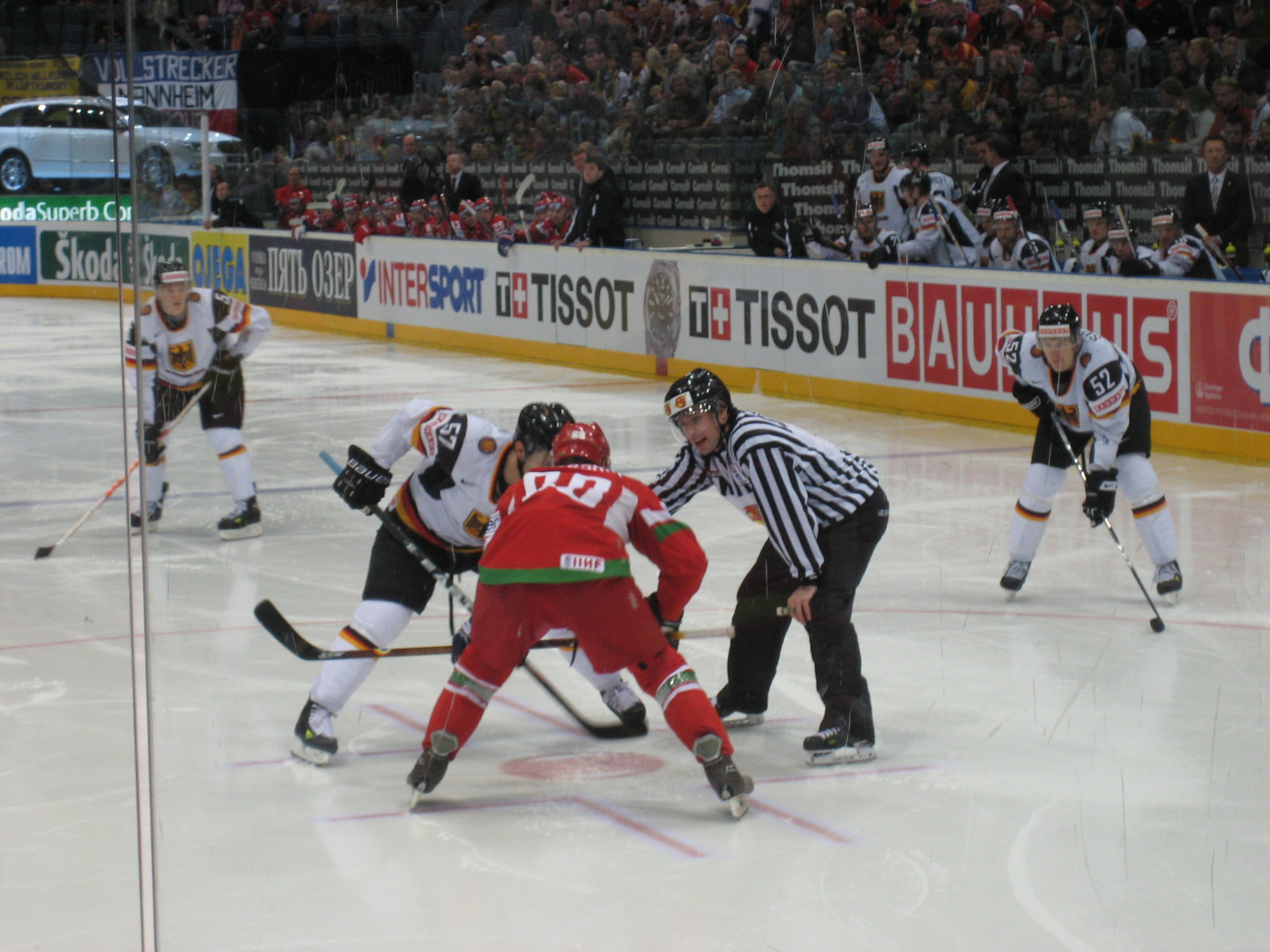 Germany - Belarus match, 2010 IIHF World Championship.